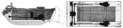 Schema of an LVT-3.